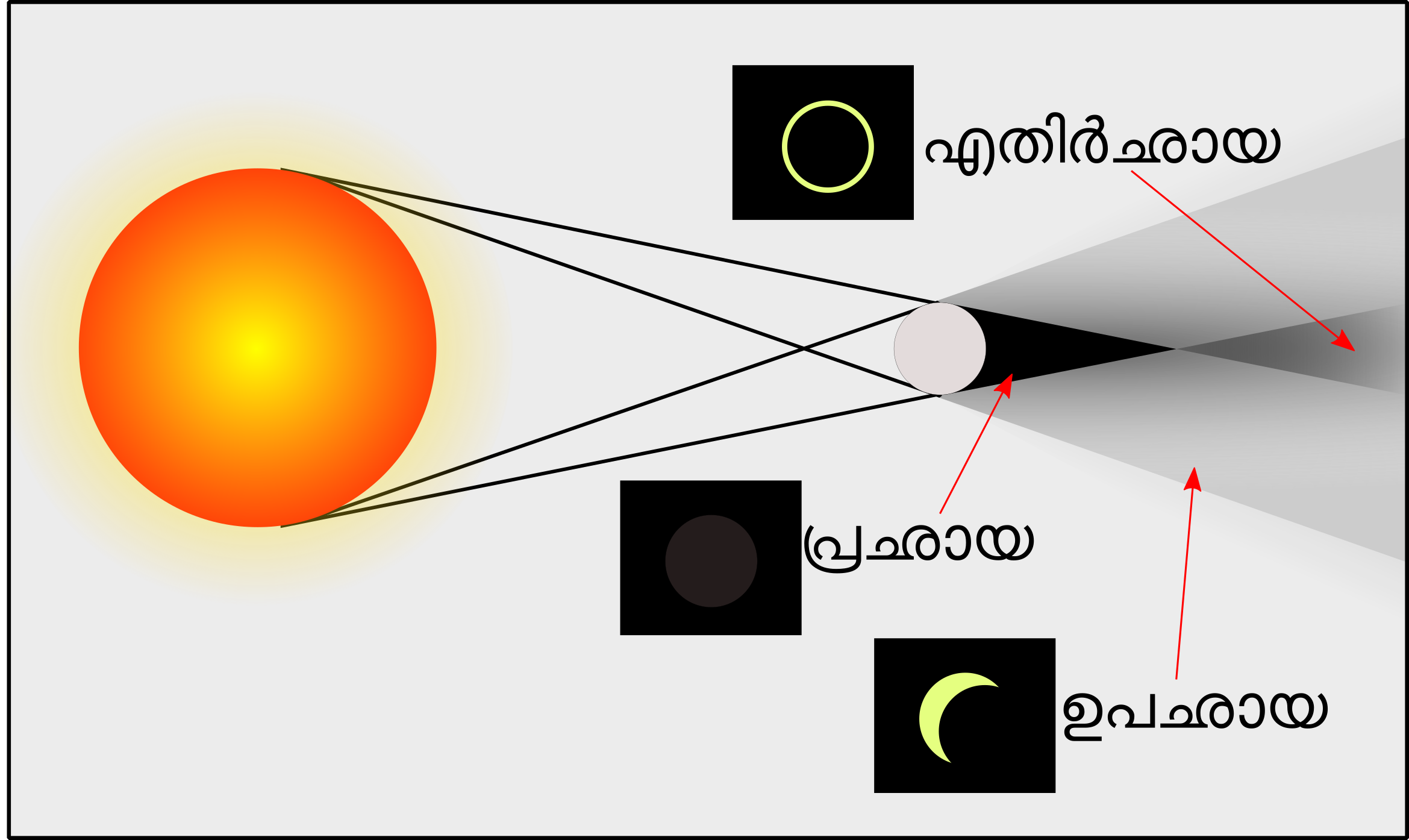 Diagram of umbra, penumbra and antumbra in a two-body system.